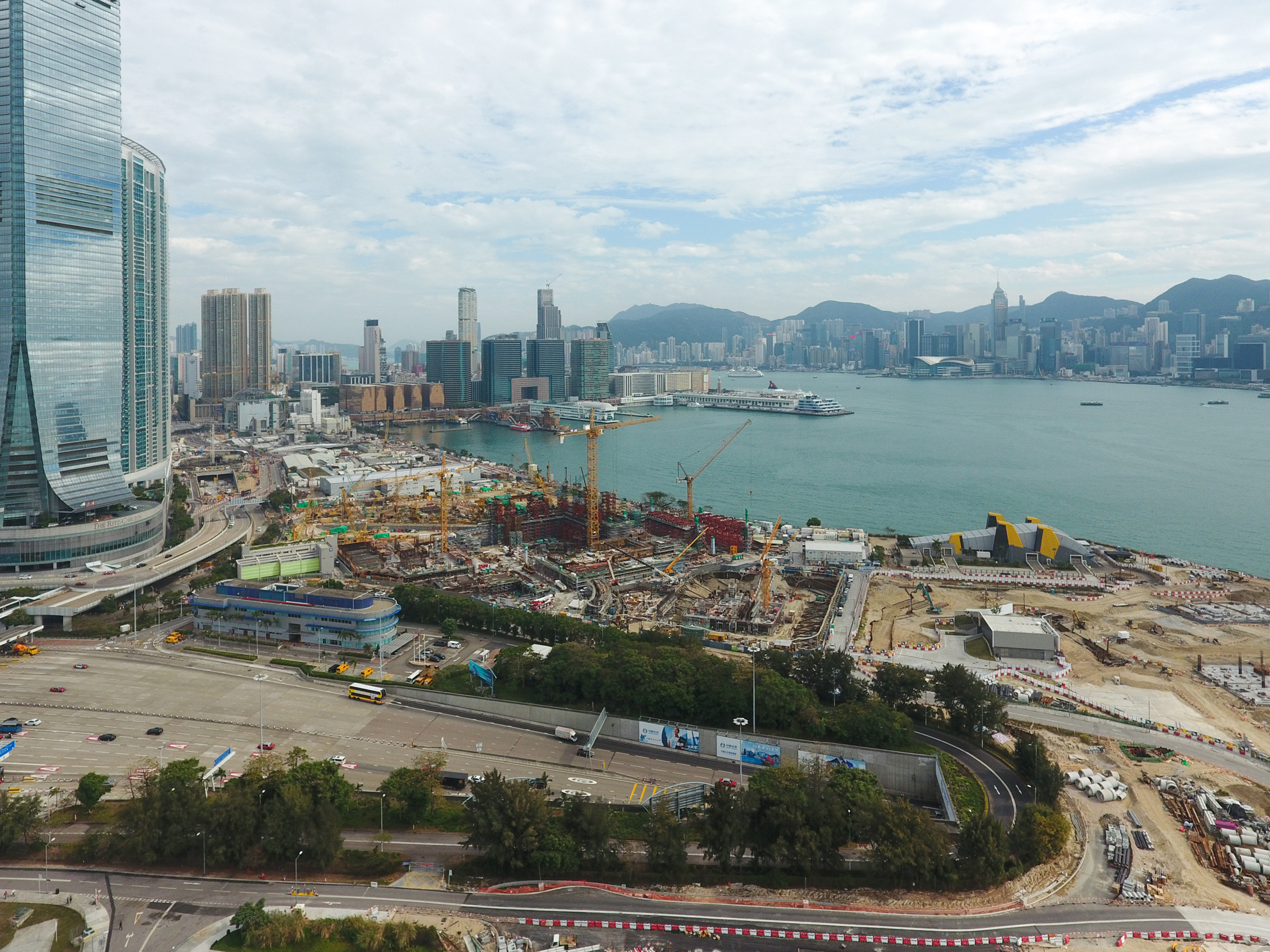 West Kowloon Cultural District site